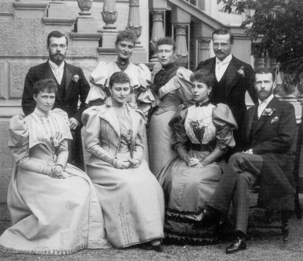 The grand ducal family of Hesse at the end of the XIX century. Guests of Princess Victoria Melita of Saxe-Coburg and Gotha and Ernest Louis, Grand Duke of Hesse and by Rhine at Darmstadt.Top Row: Tsarevich Nikolay Alexandrovich, Princess Alix of Hesse, Princess Victoria and their brother Grand Duke Ernest Louis.Bottom Row: Princess Irene of Prussia, Grand Duchess Elizaveta of Russia, Princess Victoria Melita and Grand Duke Sergei Alexandrovich of Russia.